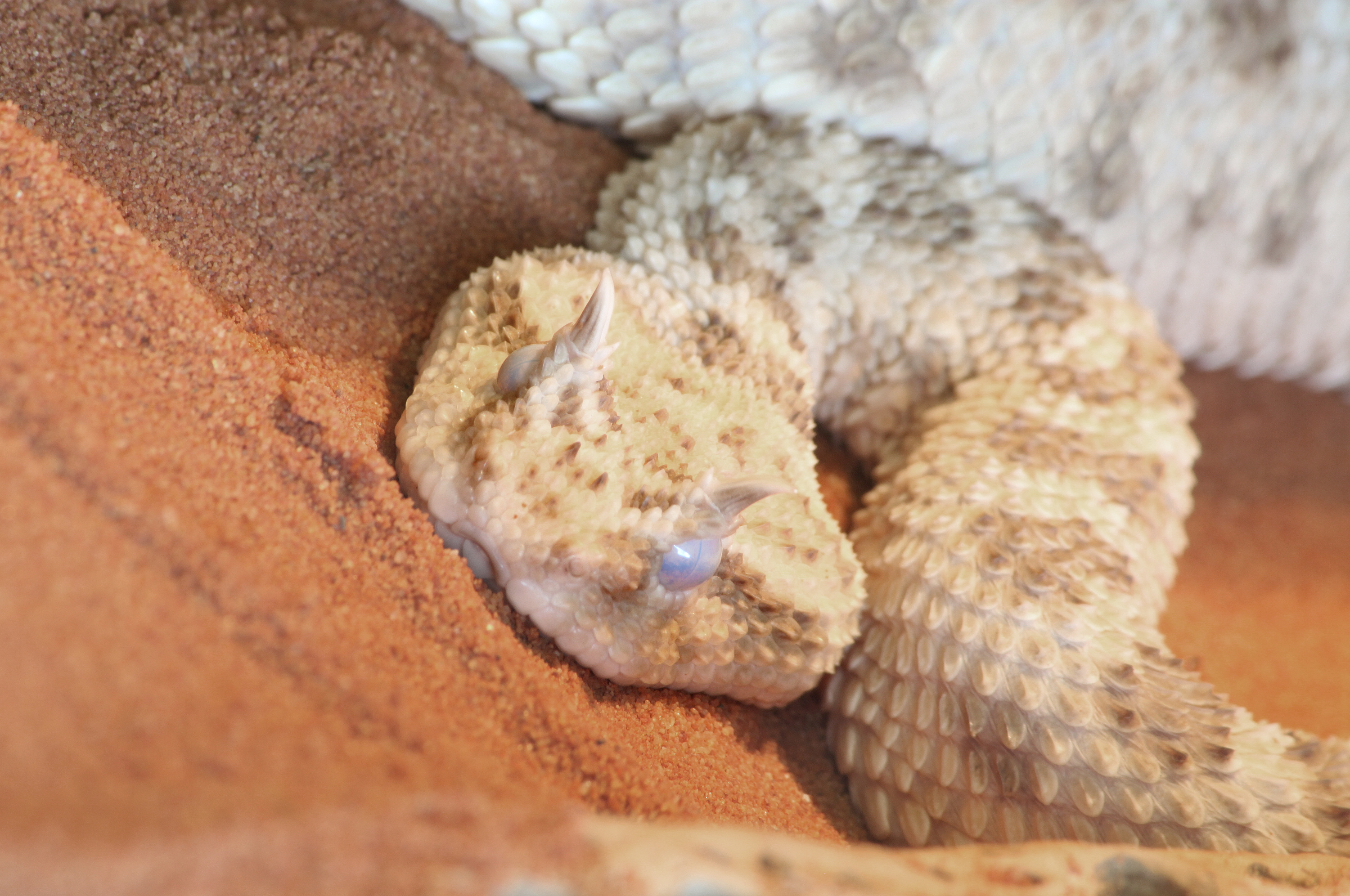 Saharan Horned Viper, Horned Desert Viper, Cerastes cerastes, before molt, Family: Viperidae, Location: Germany, Scheidegg, Reptilienzoo